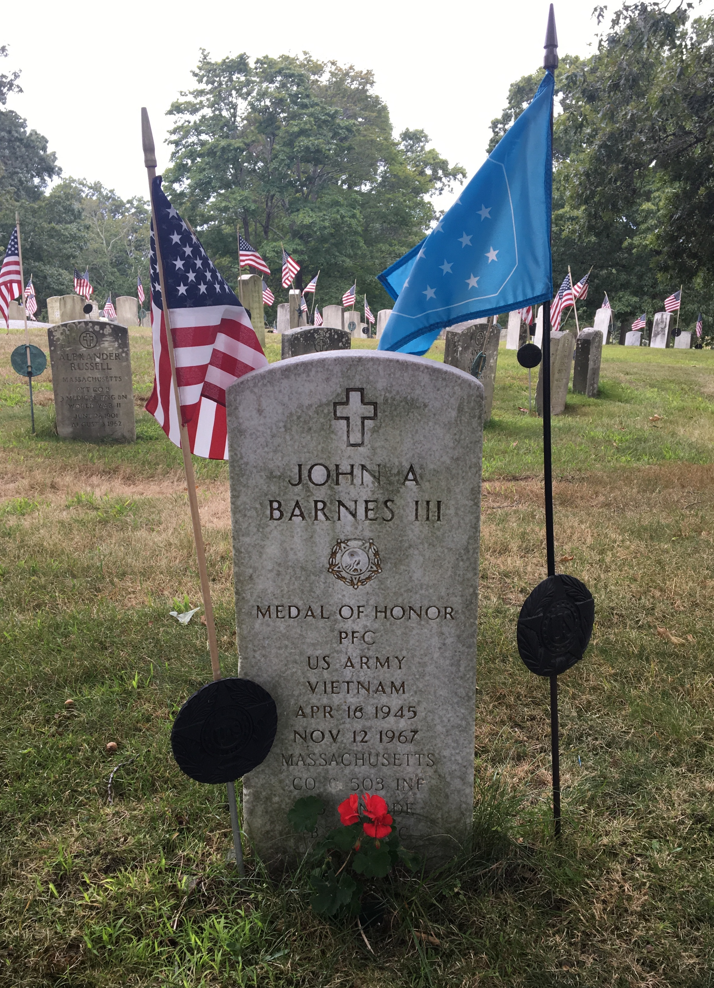 The gravestone of John A. Barnes III on Veteran's Hill at Brookdale Cemetery in Dedham, Massachusetts